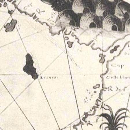 This is a detail from a 1550 world map by Pierre Desceliers, showing an island labelled Arenes. In 1895, George Collingridge argued that this word is a corruption of Abrolhos, and that the island therefore represents the Houtman Abrolhos; thus the map was recruited as evidence for the argument that the Houtman Abrolhos was first discovered by the Portuguese. This claim was mocked by Jan Heeres, however, and subsequently dismissed by James Sykes Battye. It is no longer maintained by any modern scholar.